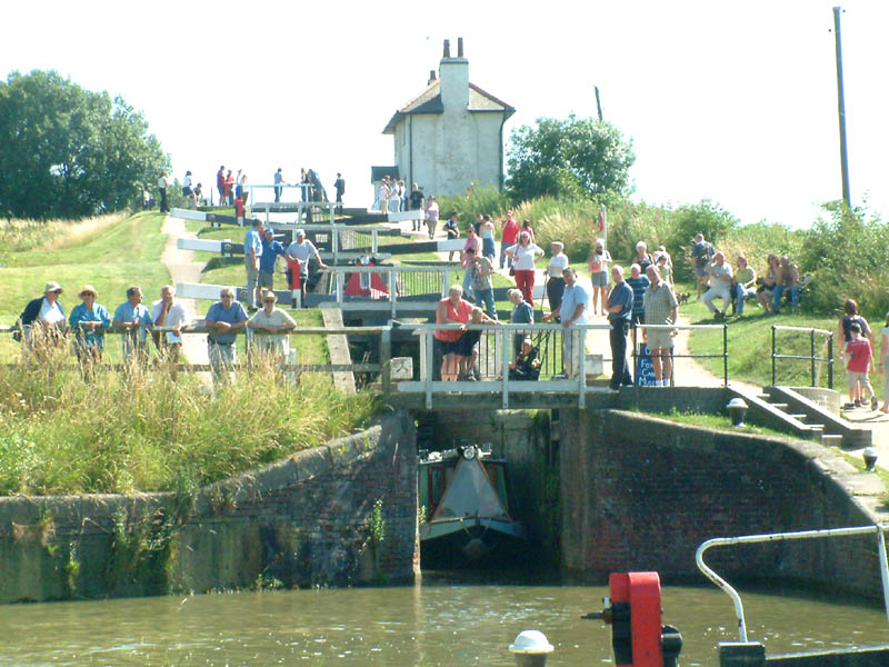 The upper staircase of five locks at Foxton Locks, looking across the passing area from the top lock of the lower staircase. The boat in the lock is waiting for a boat in the lower staircase to complete its passage up to the passing area, while many gongoozlers look on. Photograph by Stephen Dawson, 12 July 2003